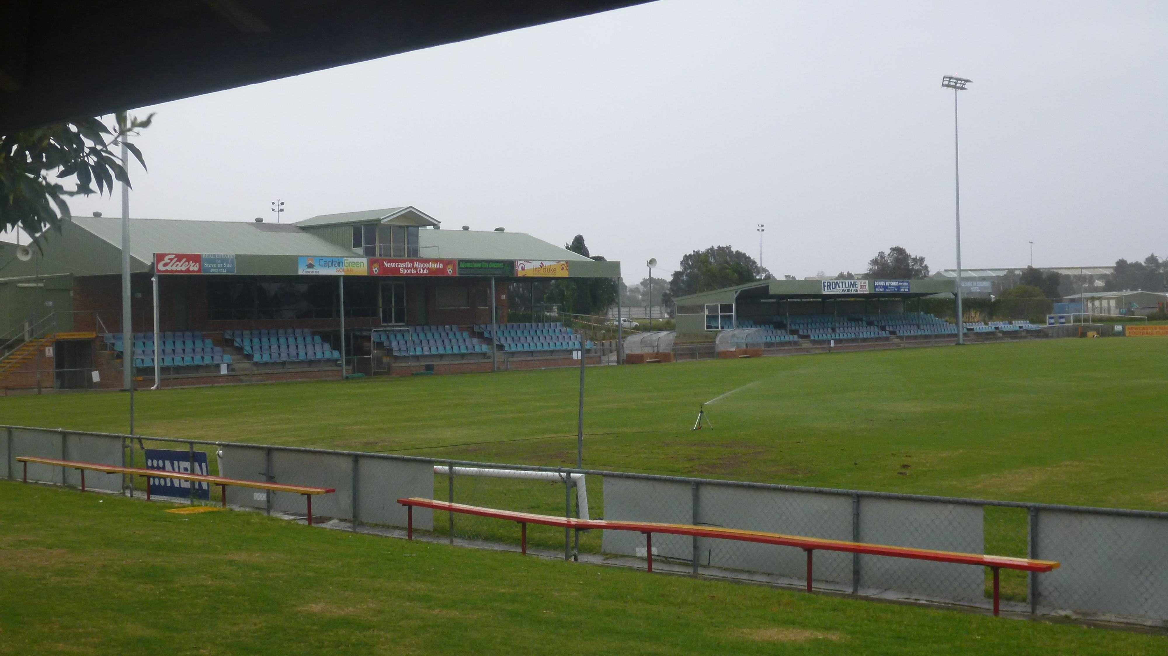 Wanderers Oval in Broadmeadow, New South Wales, Australia. View of the grandstand from the southern end of the oval looking approximately NNW